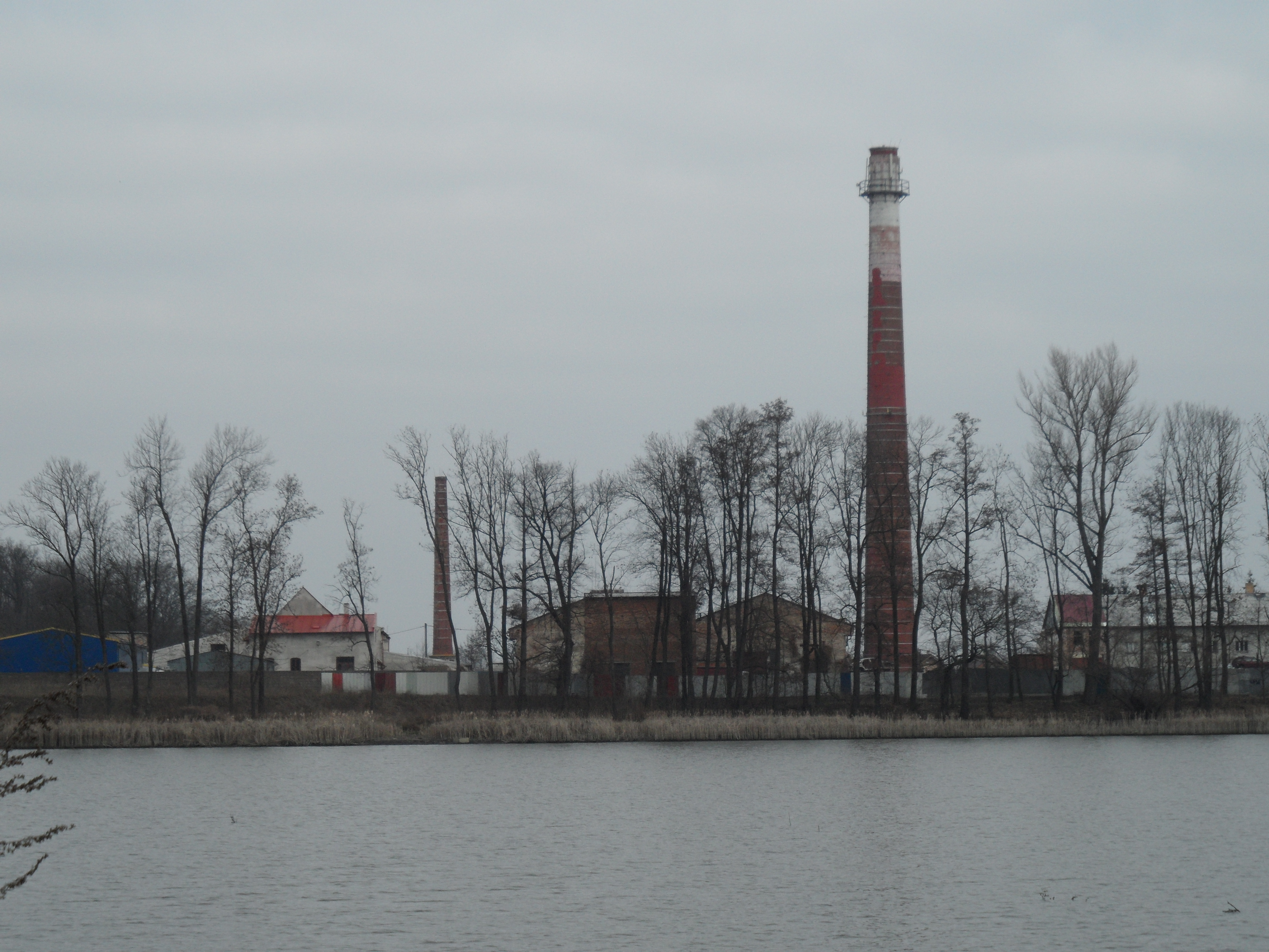 Ovčáry (Nové Dvory) A. Building of Former Sugar Factory (View from Ovčárecký rybník's Side), Kutná Hora District, the Czech Republic.